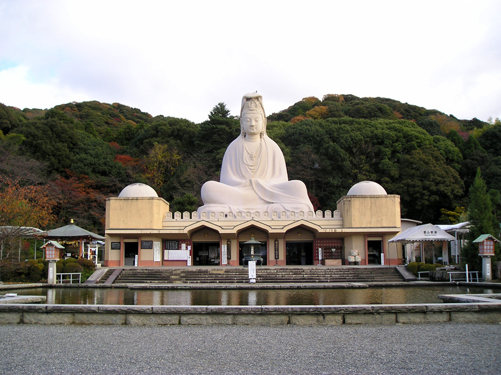 Ryozen Kannon, Kyoto, Japan